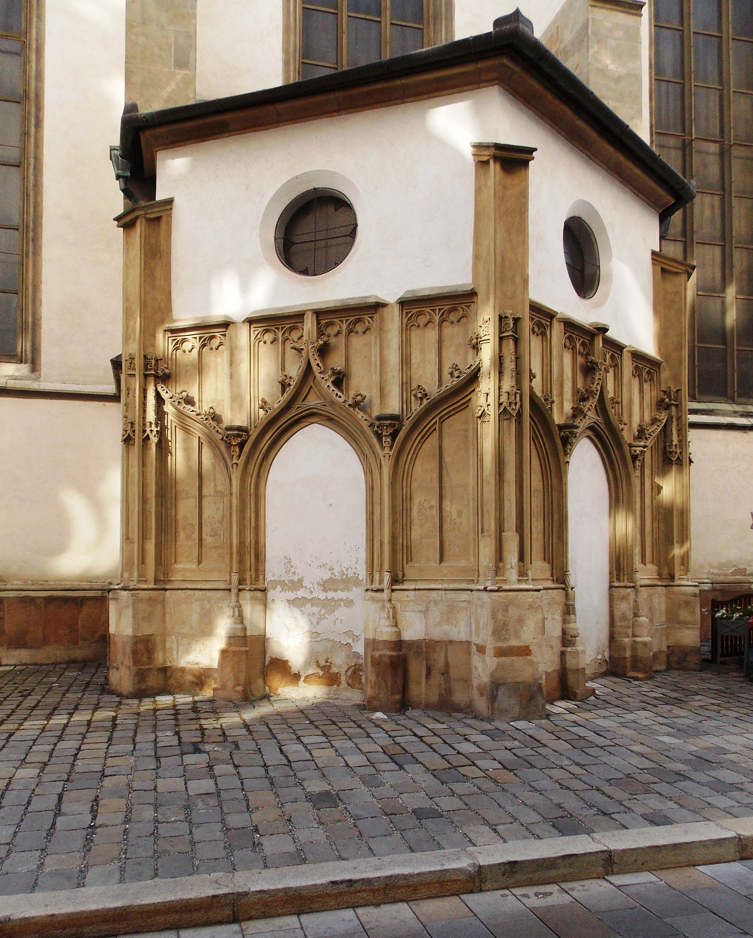 pel by Anton Pilgram